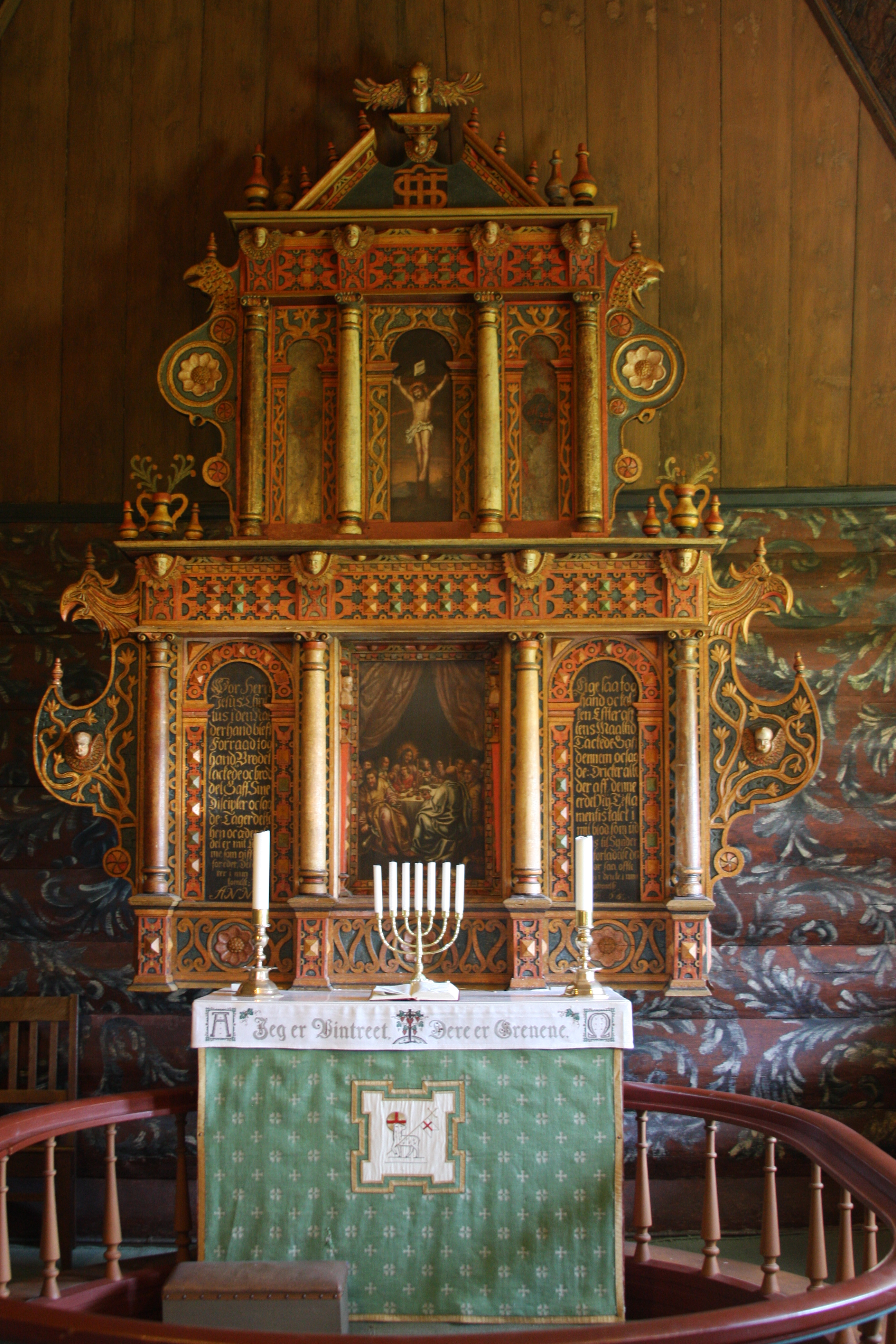 Sögne Old Church (Søgne gamle kirke) in Sögne municipality, 15 km west of Kristiansand, Norway. Medieval.